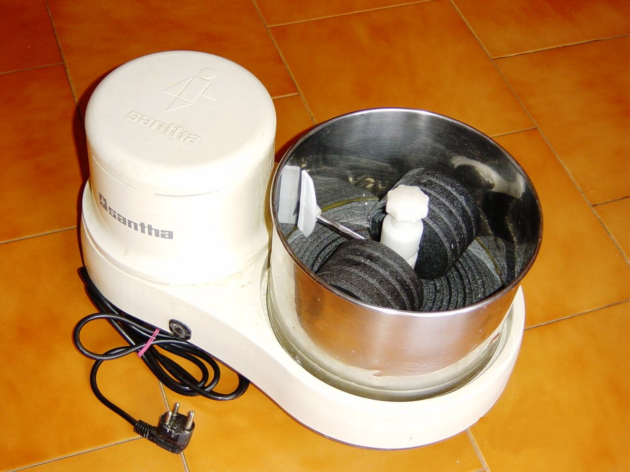 This photograph was taken by me, Vinayak.S, at 15:05hrs IST, on 25th January 2006. It is one the popular types of wet grinders, used in many Indian households. My family owns this particular unit, and is used to grind the batter, used for preparing dosa and idli. Powered by 220V, 50Hz AC power from the wall outlet.